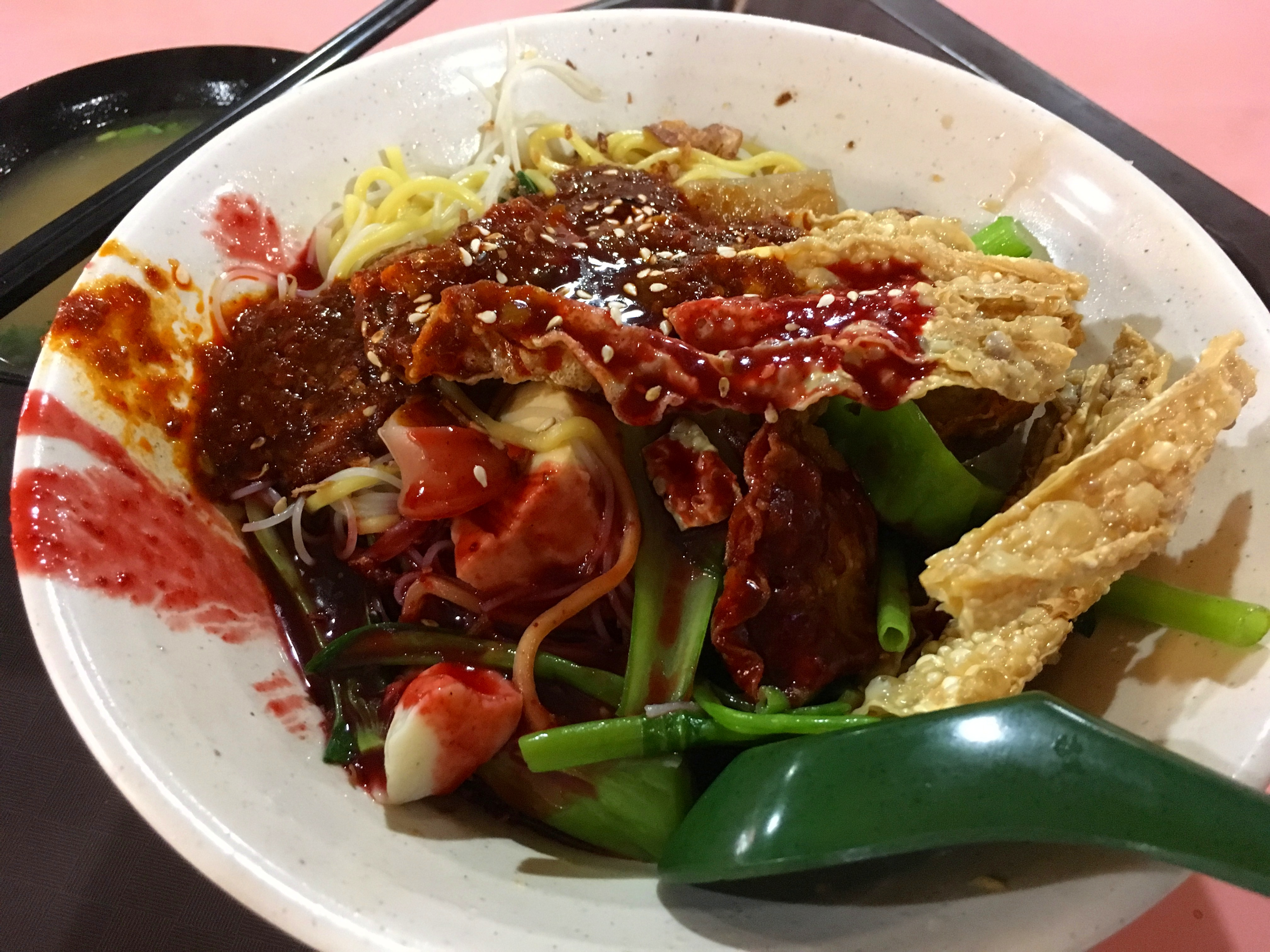 Yong tau foo is a Hakka Chinese cuisine consisting primarily of tofu filled with ground meat mixture or fish paste. Variation of this food include vegetables and mushrooms stuffed with ground meat or surimi. This is the dry version served with sweet sauce and soup.